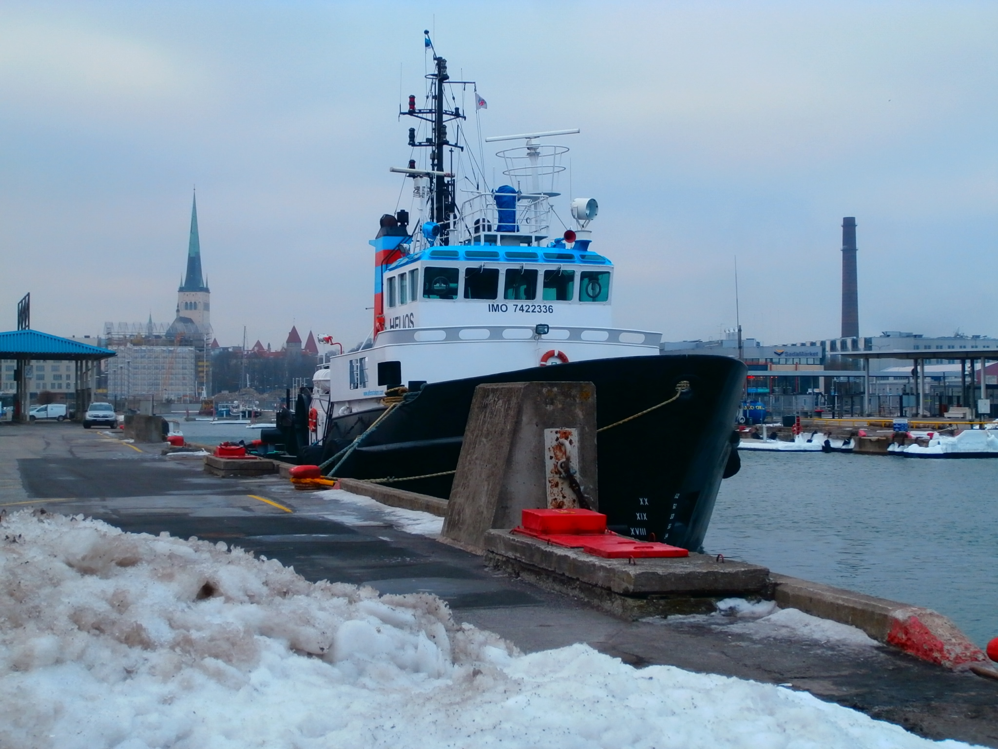 Helios at quay 8 in Port of Tallinn 11 January 2017